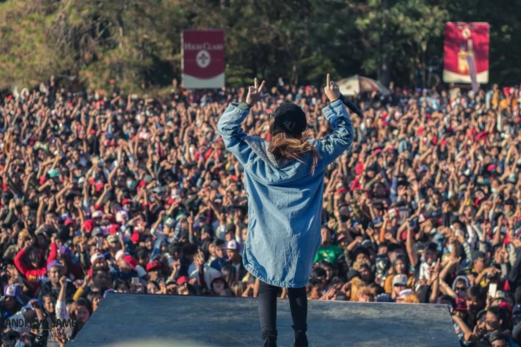 Famous Burmese Hip Hop Singer Bobby Soxer